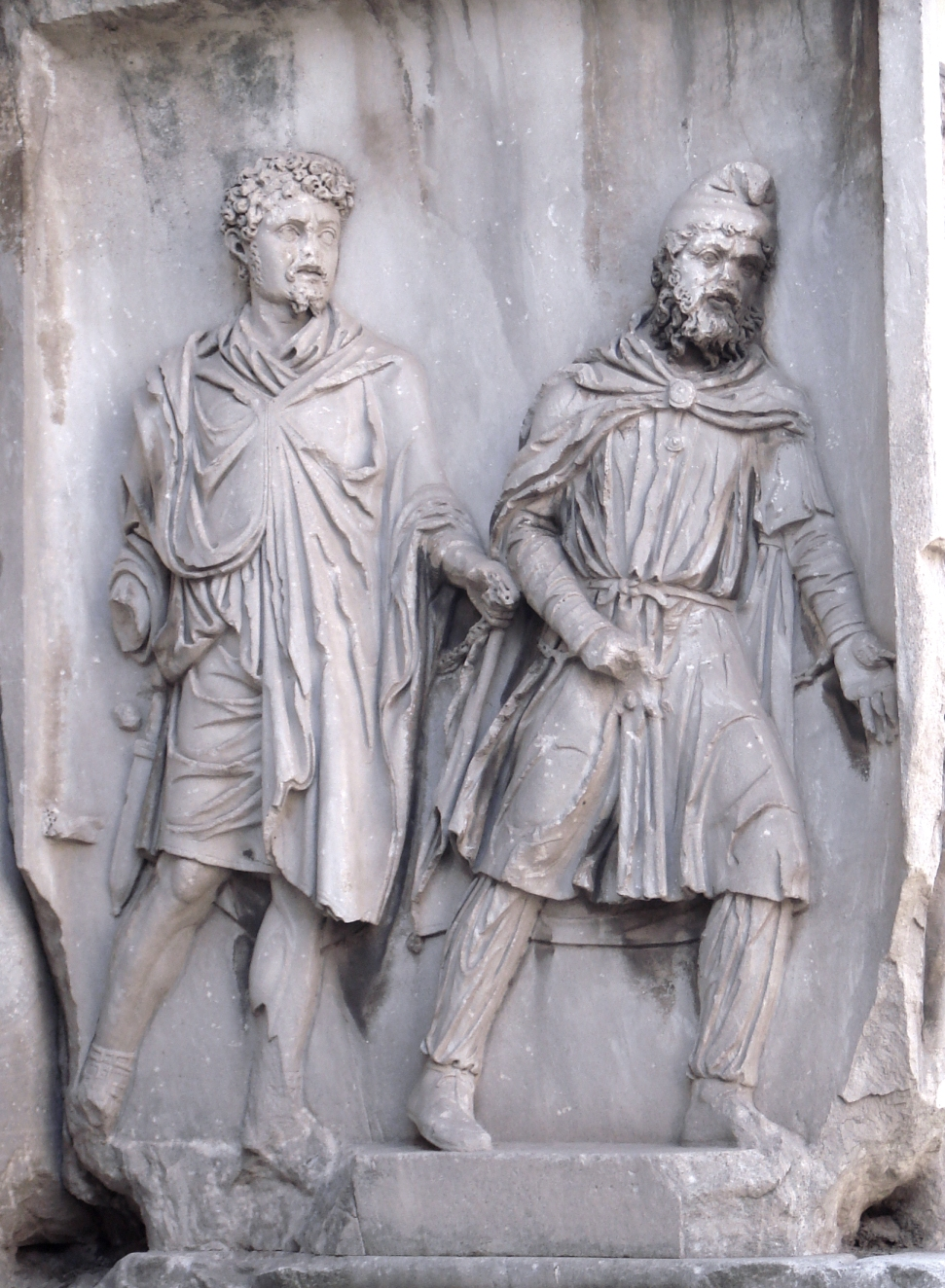 Parthian prisoner on chains, circa 200 CE. Arch of Septimus Severus, Rome.